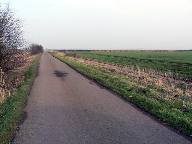 Branston Fen. North Causeway looking northeast